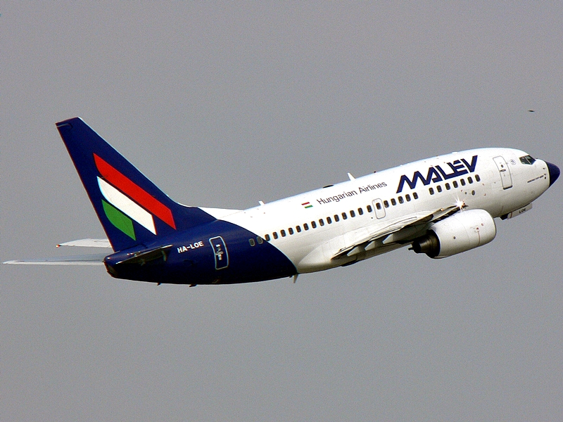 Boeing 737-6Q8 Malev Hungarian Airlines Registration: HA-LOE